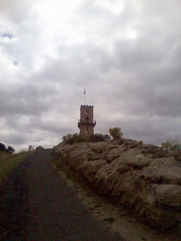 Centenary Tower (opened in 1904) from the base of the walking track in Mount Gambier.